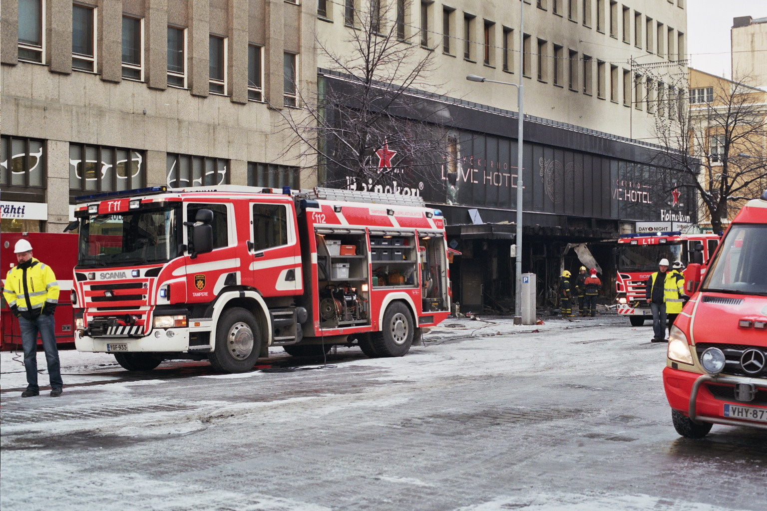 Fire/emergency personnel at Hämeenkatu 10 in the center of Tampere in Finland at around 12:00 AM on November 22, 2010 (Finnish time). A fire (probably broken out some time after 5 AM) has destroyed kebab-pizzeria Juliet and damaged other parts of the building. The fire also claimed three lives and injured four people. Most of these seven are/were probably inhabitants of the building.